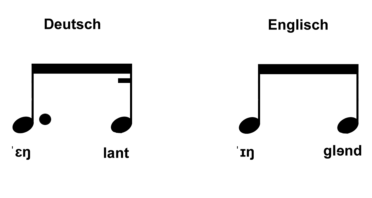 Unstressed syllable after stressed one. Difference between German and English rhythmic groups.